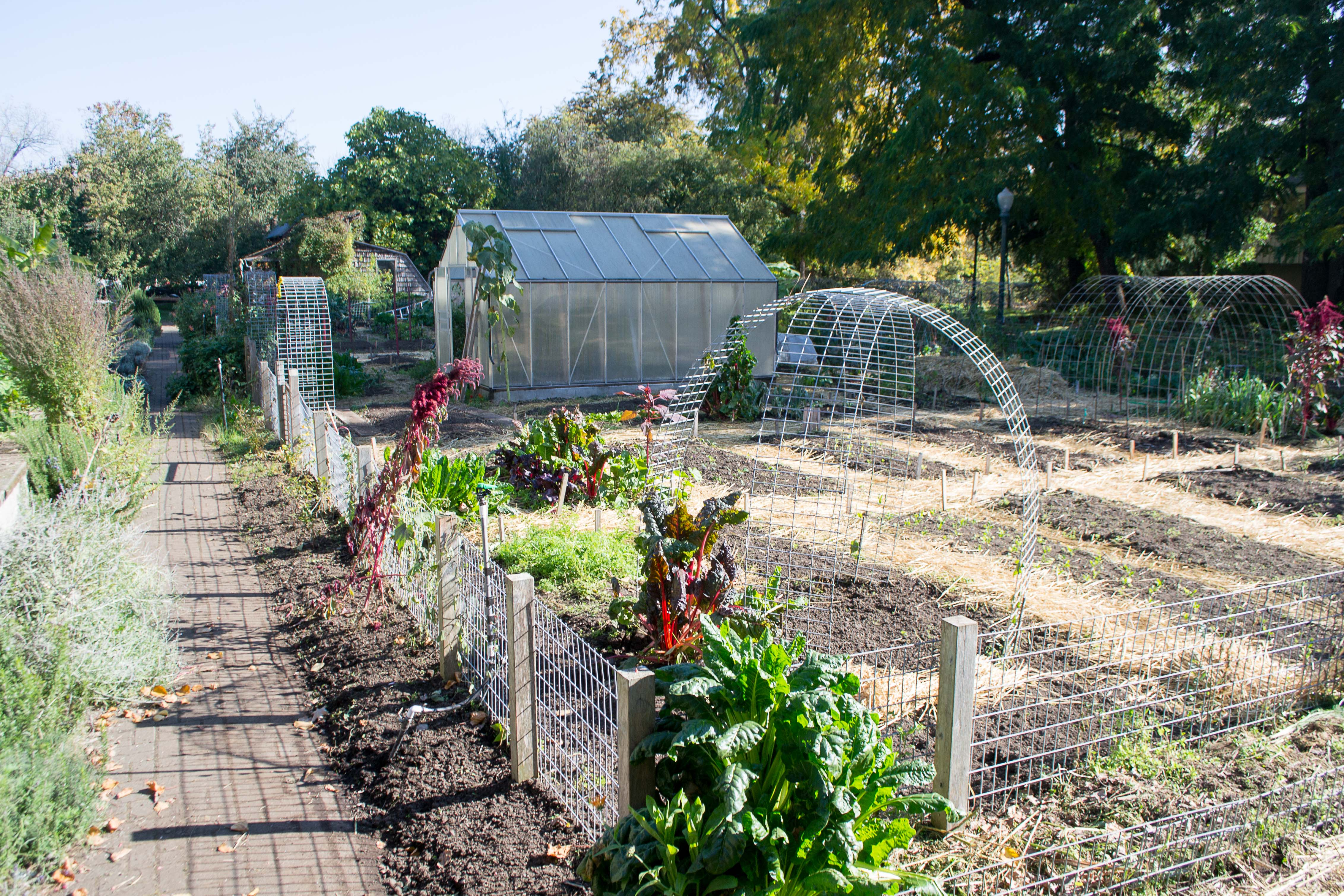 The Urban Farm at the University of Oregon